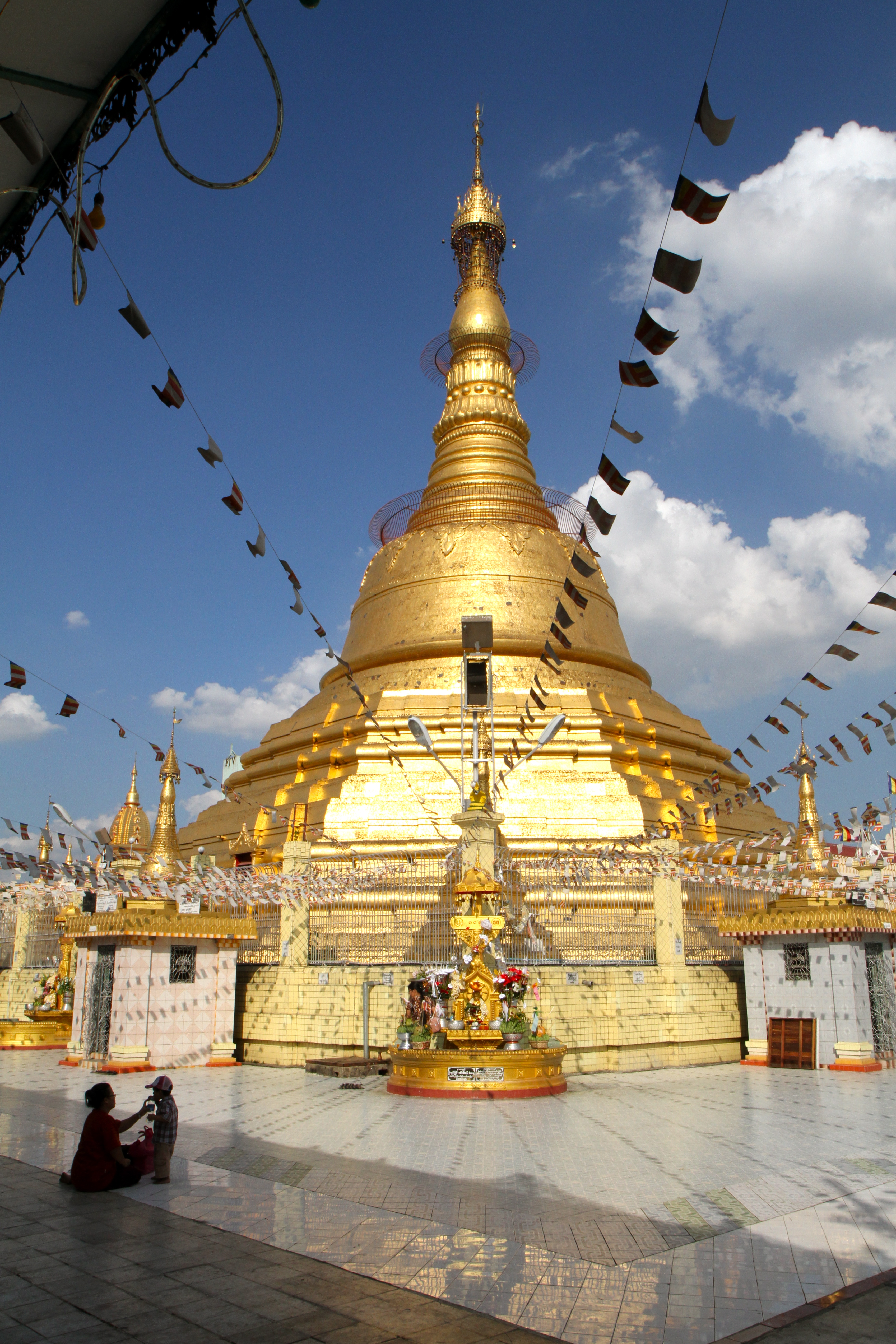 Botataung Pagoda stupa with flags in Yangon, Myanmar